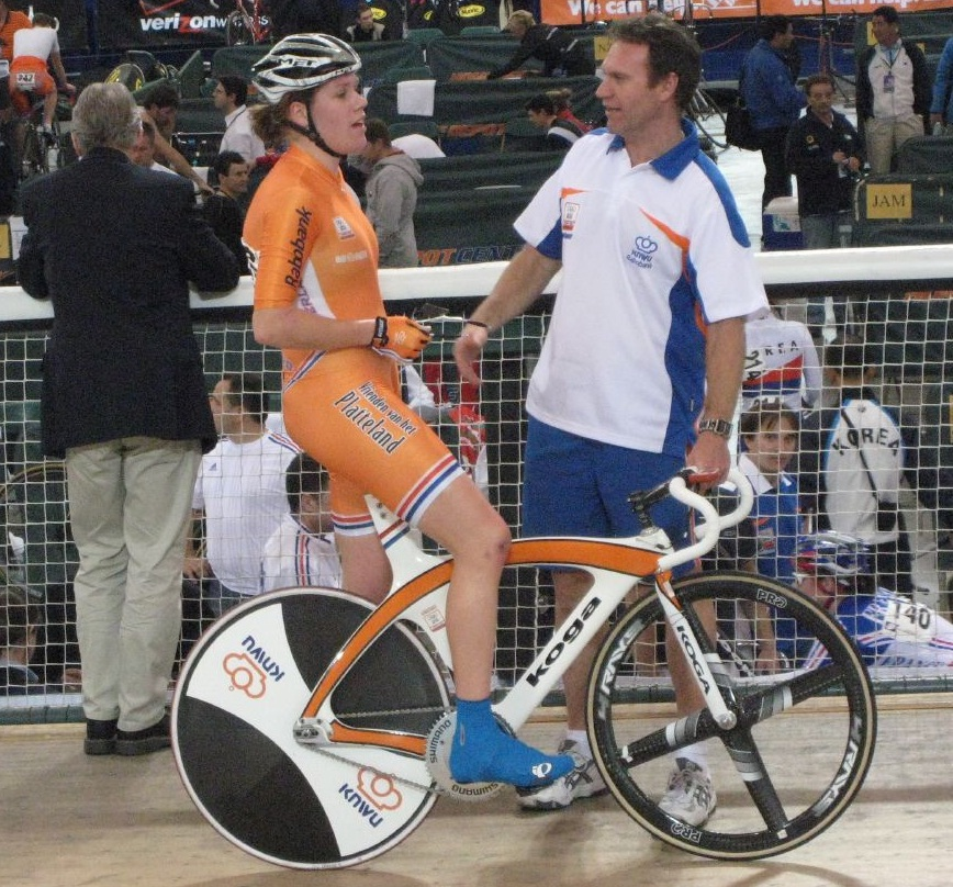 Ellen van Dijk at the 2007–08 UCI Track Cycling World Cup in Los Angeles after the women's scratch